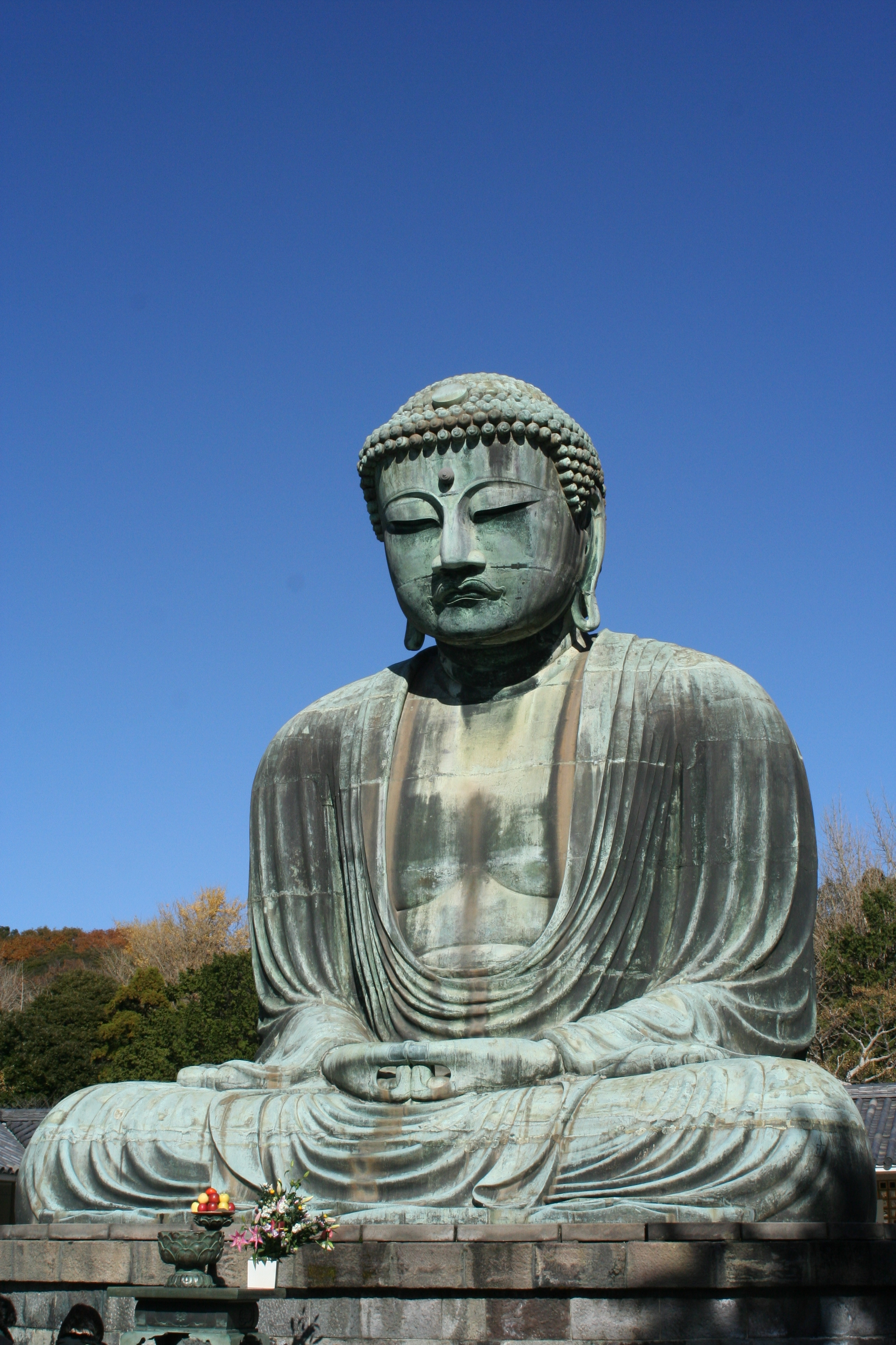 Kamakura Daibutsu in December 2008